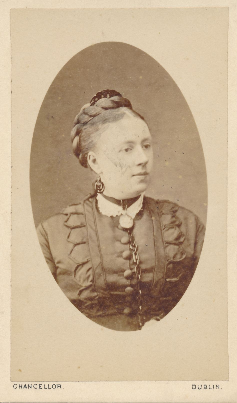 Mrs Thomas Conolly of Castletown, Co Donegal - 1875 (cdv printed by Chancellor, 55, Lower Sackville Street, Dublin)